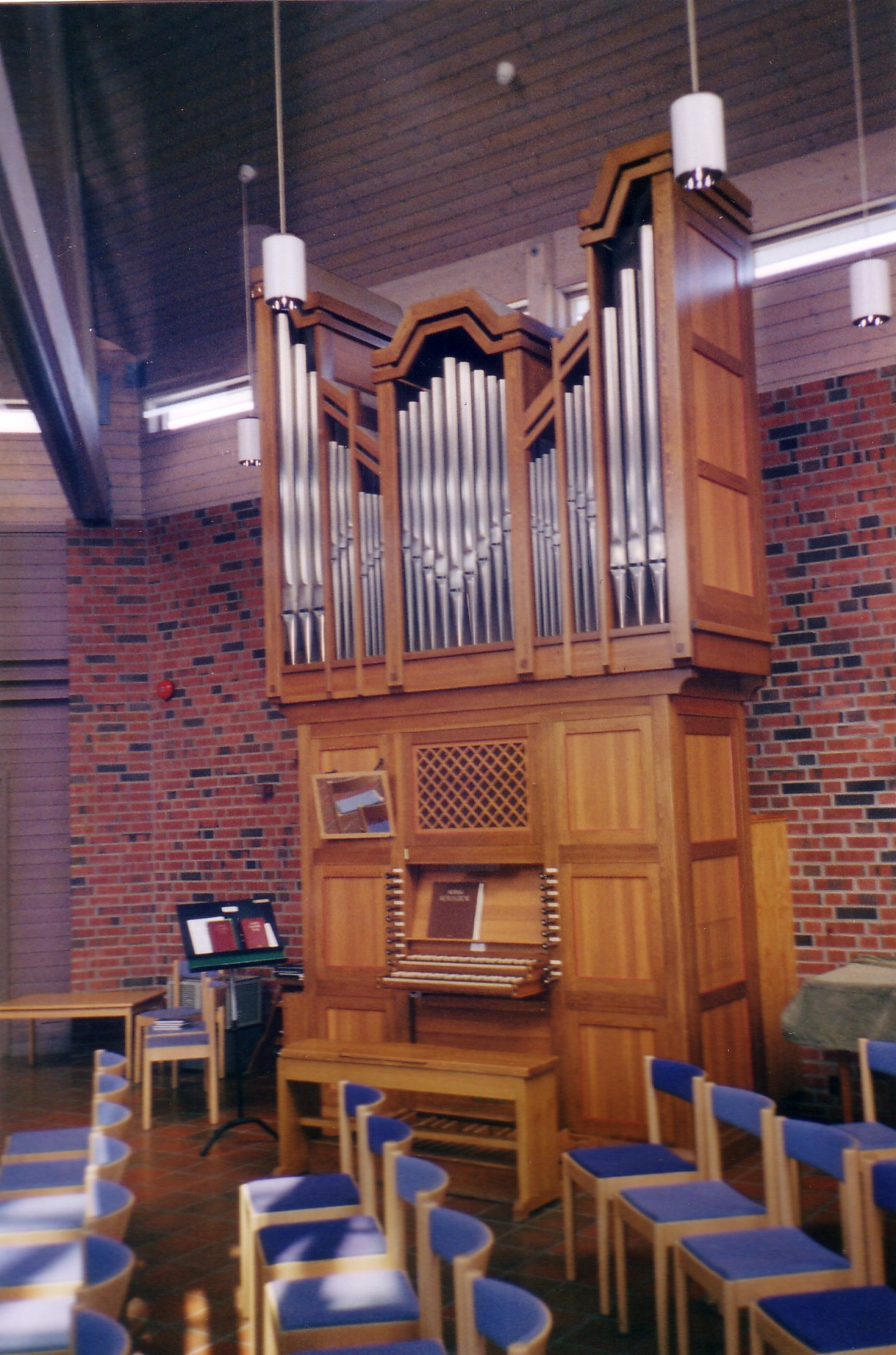 The organ of the new church in Ski, South Norway, built by Robert Gustavsson Orgelbyggeri AB in Härnösand, Sweden, in 1988. 18 stops.